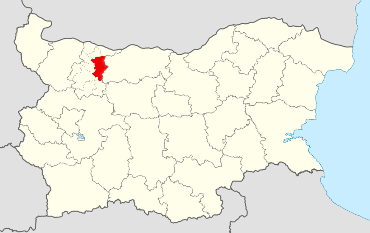 Location map of Byala Slatina Municipality within Bulgaria and Vratsa Province.